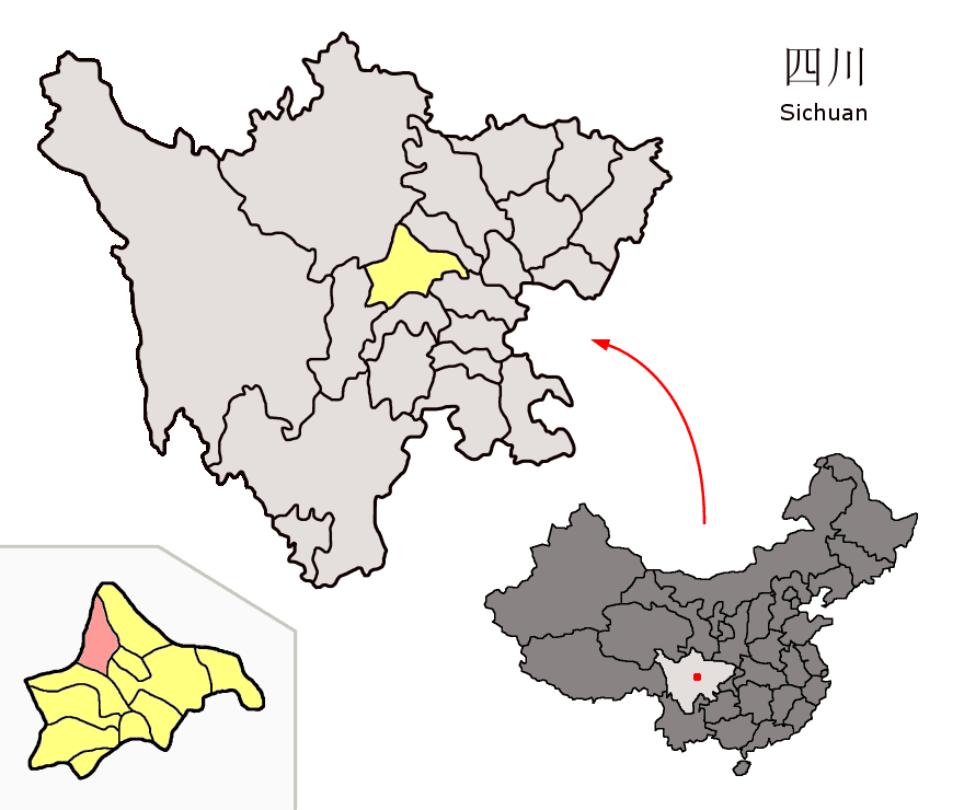 Location of Dujiangyan City (pink) and Chengdu Prefecture (yellow) within Sichuan province of China Map drawn in september 2007 using various sources, mainly : Sichuan province administrative regions GIS data: 1:1M, County level, 1990 Sichuan Counties map from